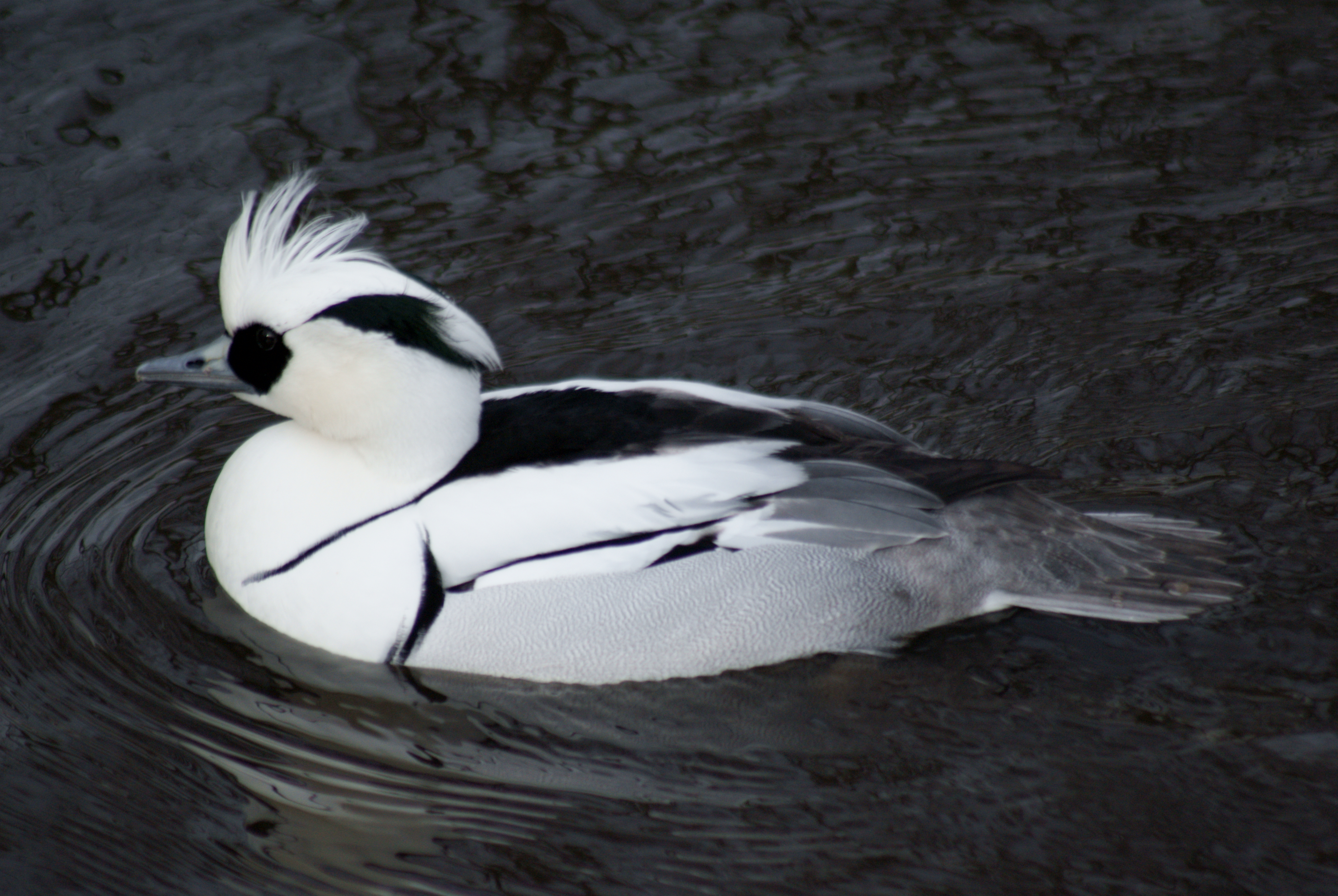 Mergus albellus - Smew